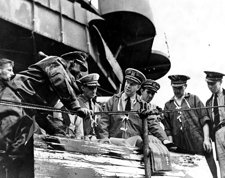 U.S. Navy members of the Salvage Division discussing the salvage of the battleship USS California (BB-44) at Pearl Harbor, circa February-March 1942. Those present are (from left to right): Chief Shipfitter J.M. Ephland, Master Diver; Lieutenant Wilfred L. Painter, Officer in Charge of Work; Commander John F. Warris, Temporary Commanding Officer, USS California; Captain Homer N. Wallin, Salvage Officer; Lieutenant James W. Greely, Assistant Salvage Officer; Lieutenant Wilbert M. Bjork, Assistant Salvage Officer; and Lieutenant James W. Darroch, Assistant Salvage Officer.